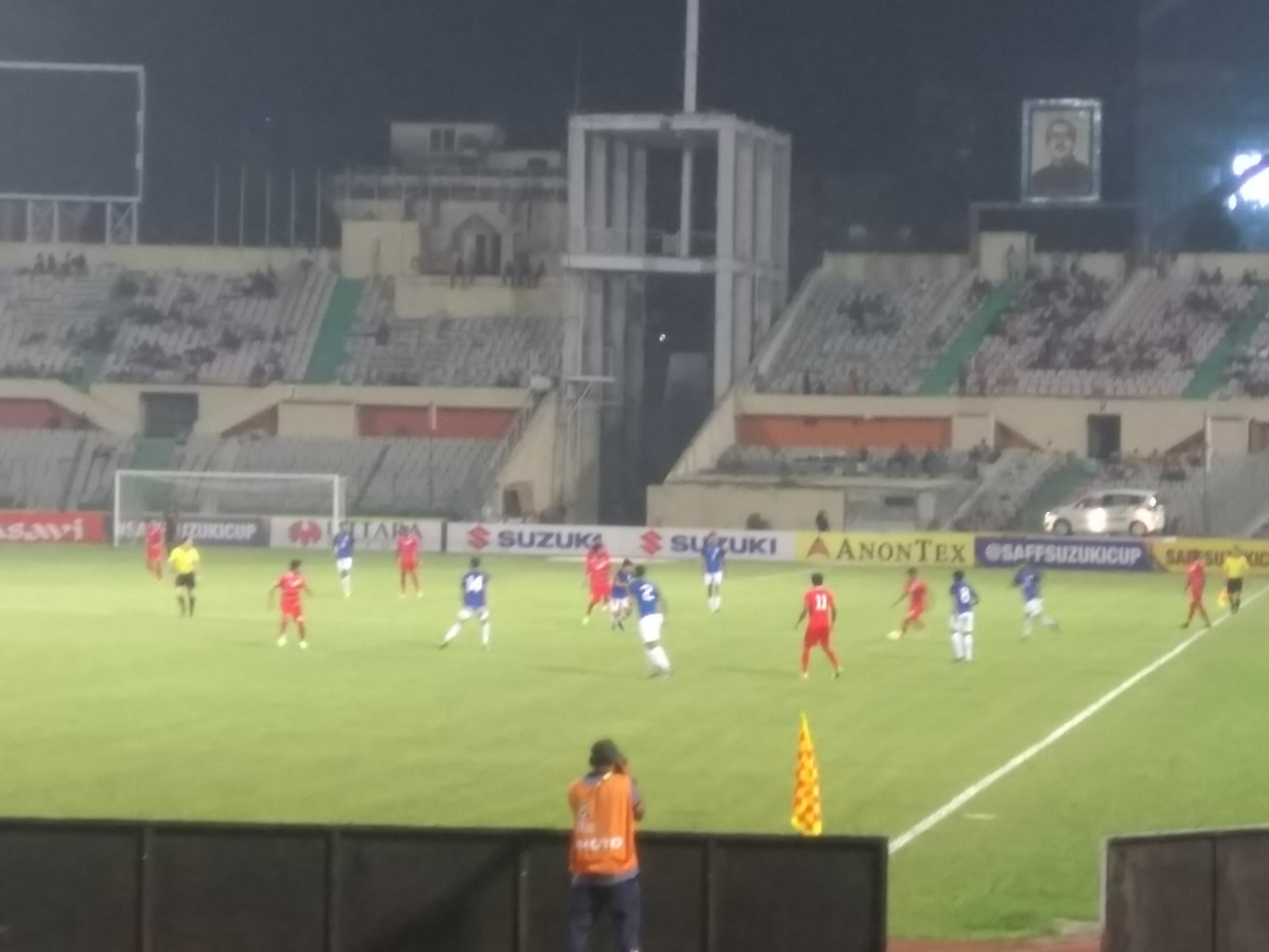 2018 SAFF Championship Final (Maldives vs India) at Bangabandhu National Stadium, Dhaka, Bangladesh.